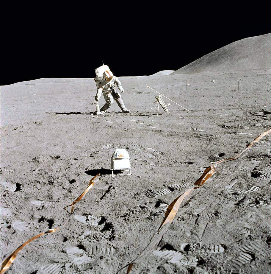 David Scott and the drill